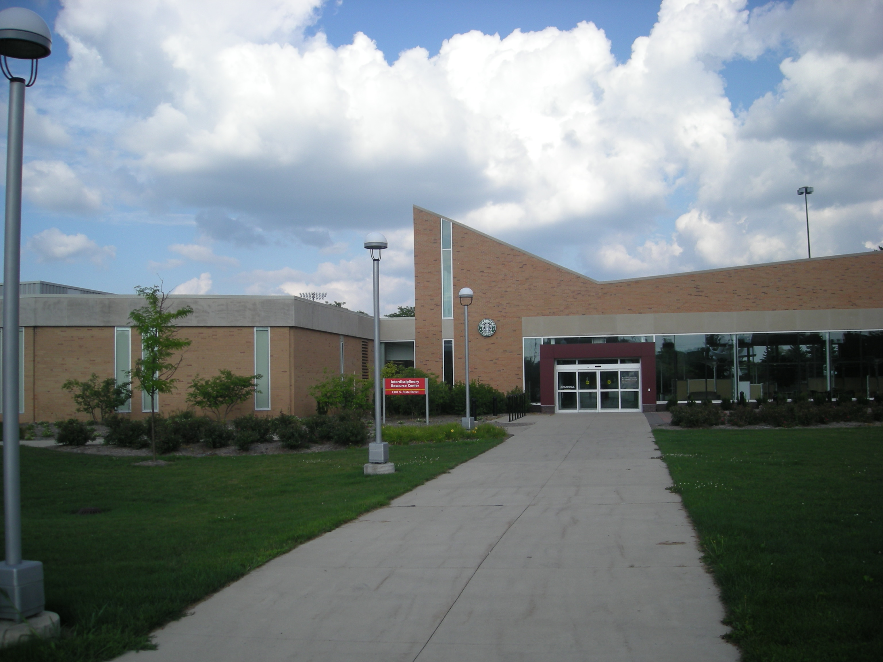 The Interdisciplinary Resource Center on the campus of Ferris State University in Big Rapids, Michigan (United States).